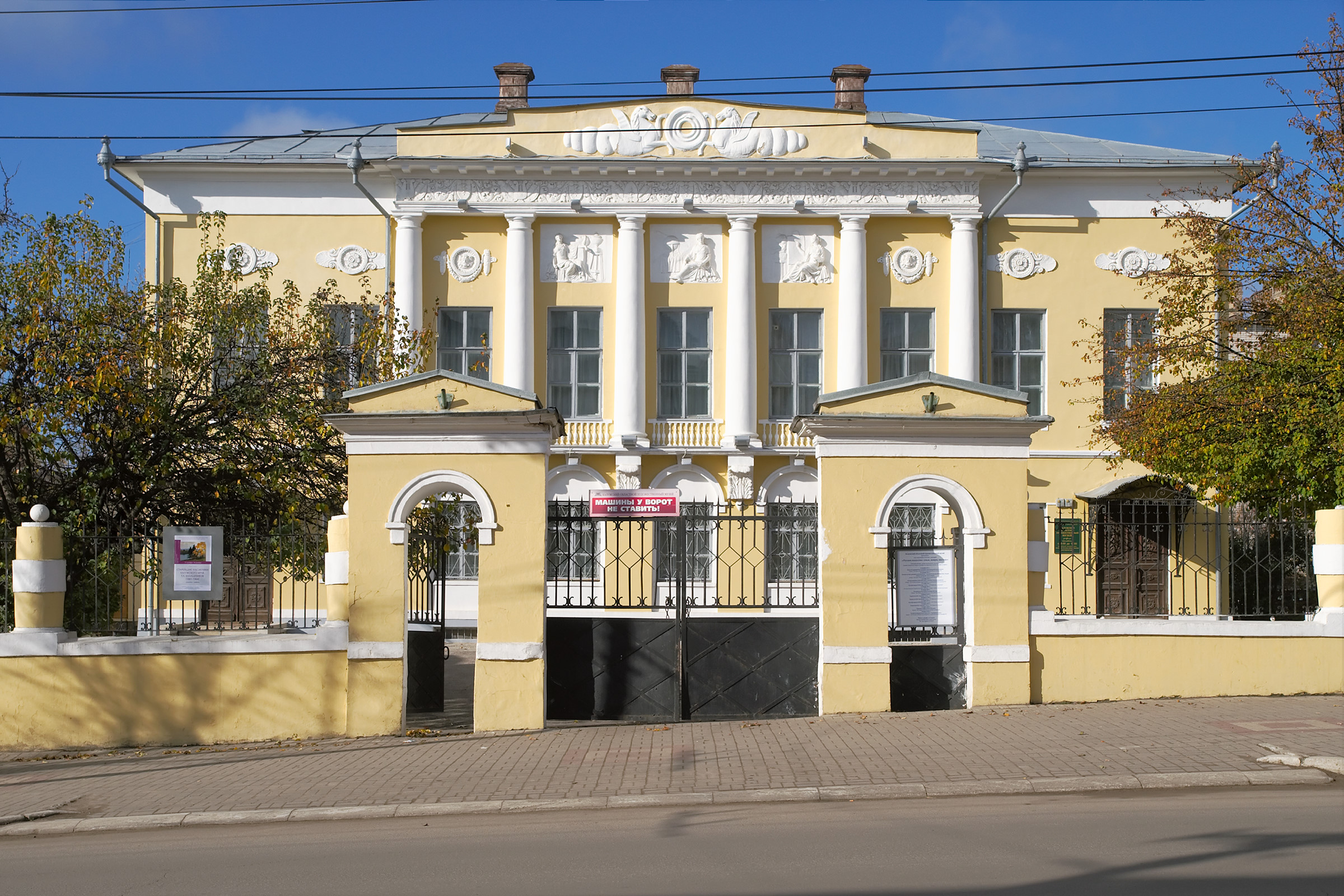 Bilibin-Chistokletov House in Kaluga. Present-day Kaluga Museum of Art.